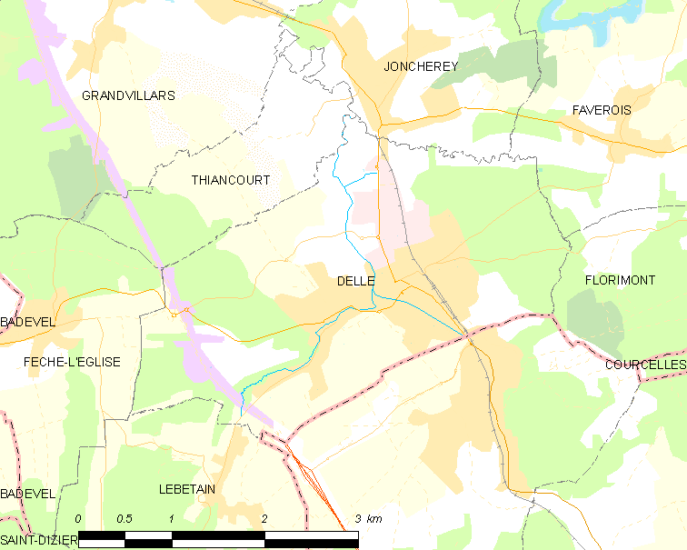 Map of French municipality Delle